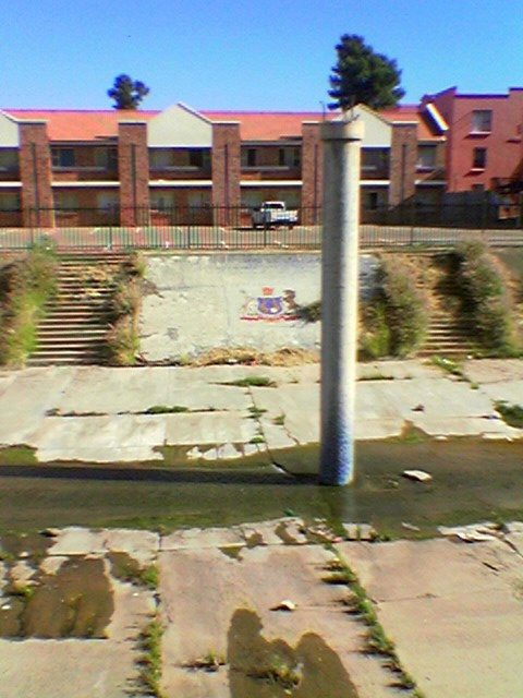 The Bloemfontein (Dutch for Flower fountain) in the city of Bloemfontein, Orange Free State province, Republic of South Africa. Bloemfontein was named after this fountain, where a Voortrekker, Johan N. Brits, settled. In the previous dispensation water could be seen flowing out from the eye atop the pipe. In the current dispensation the fountain deteriorated to the current dormant state thereof. The channel in which the fountain is situated is the Bloemspruit. Behind the fountain is the city coat of arms. Some way to the right, outside the photo, is the Free State Stadium.